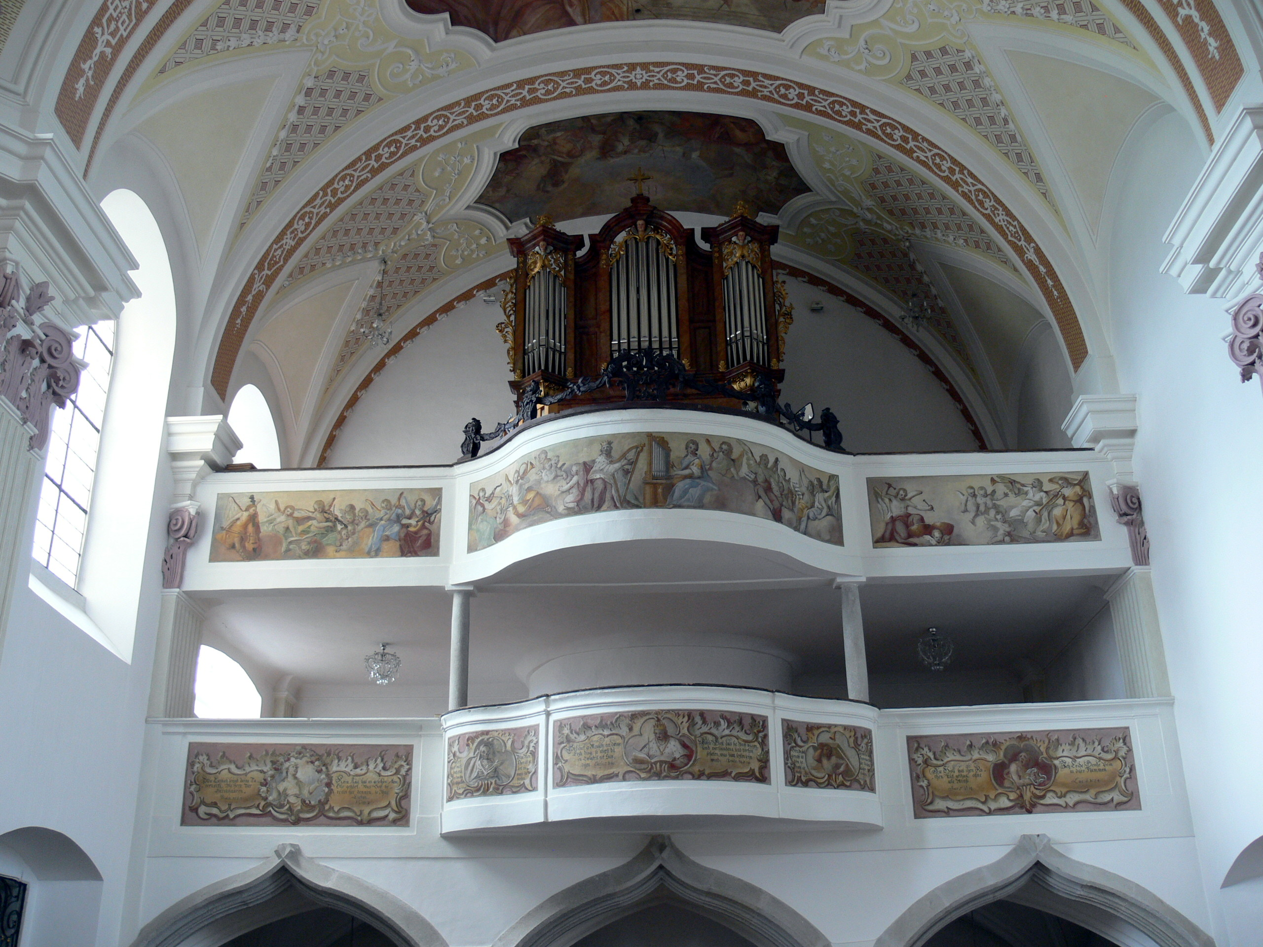 Saint Michael parish church in Untergriesbach. Church gallery ( 1753 ) with organ.